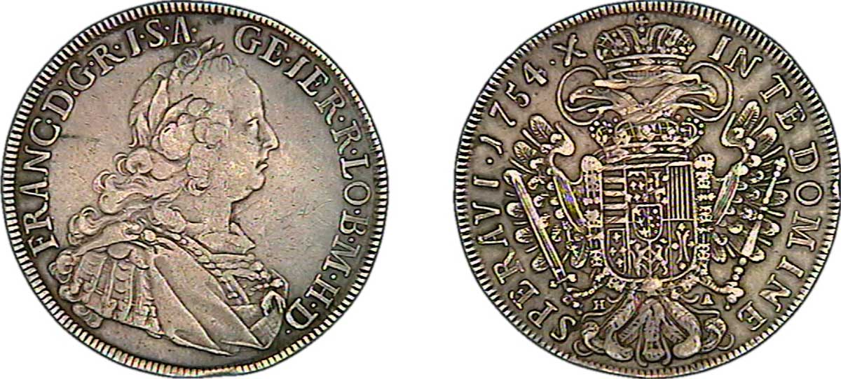 Demi thaler à l'effigie de François I de Lorraine, 1754